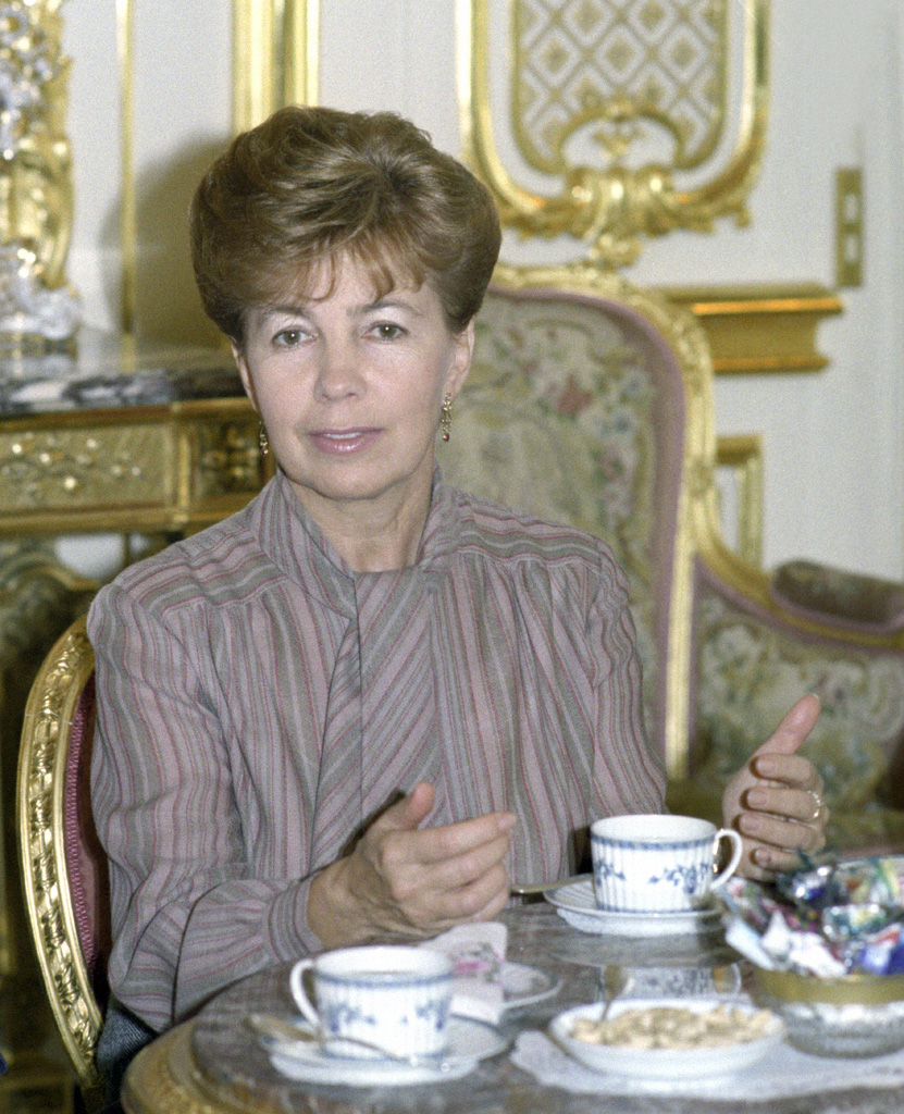 “Raisa Gorbacheva, spouse of CPSU General Secretary Mikhail Gorbachev”. Raisa Gorbacheva, the wife of the CPSU General Secretary Mikhail Gorbachev. The visit of the CPSU General Secretary Mikhail Gorbachev to France.